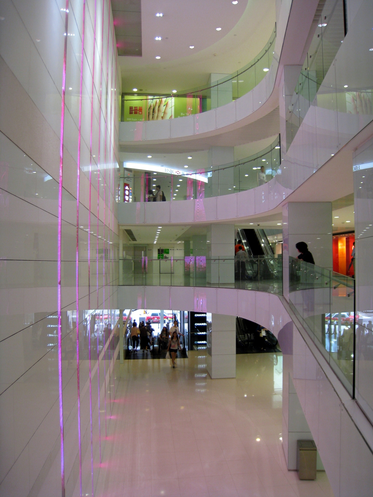 HK Ocean Center New Void 海洋中心